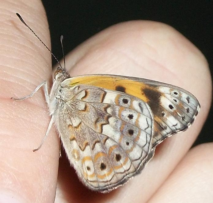 Boisduval's Tree Nymph female viewed from the side, Amanzimtoti. Emerged from this pupa